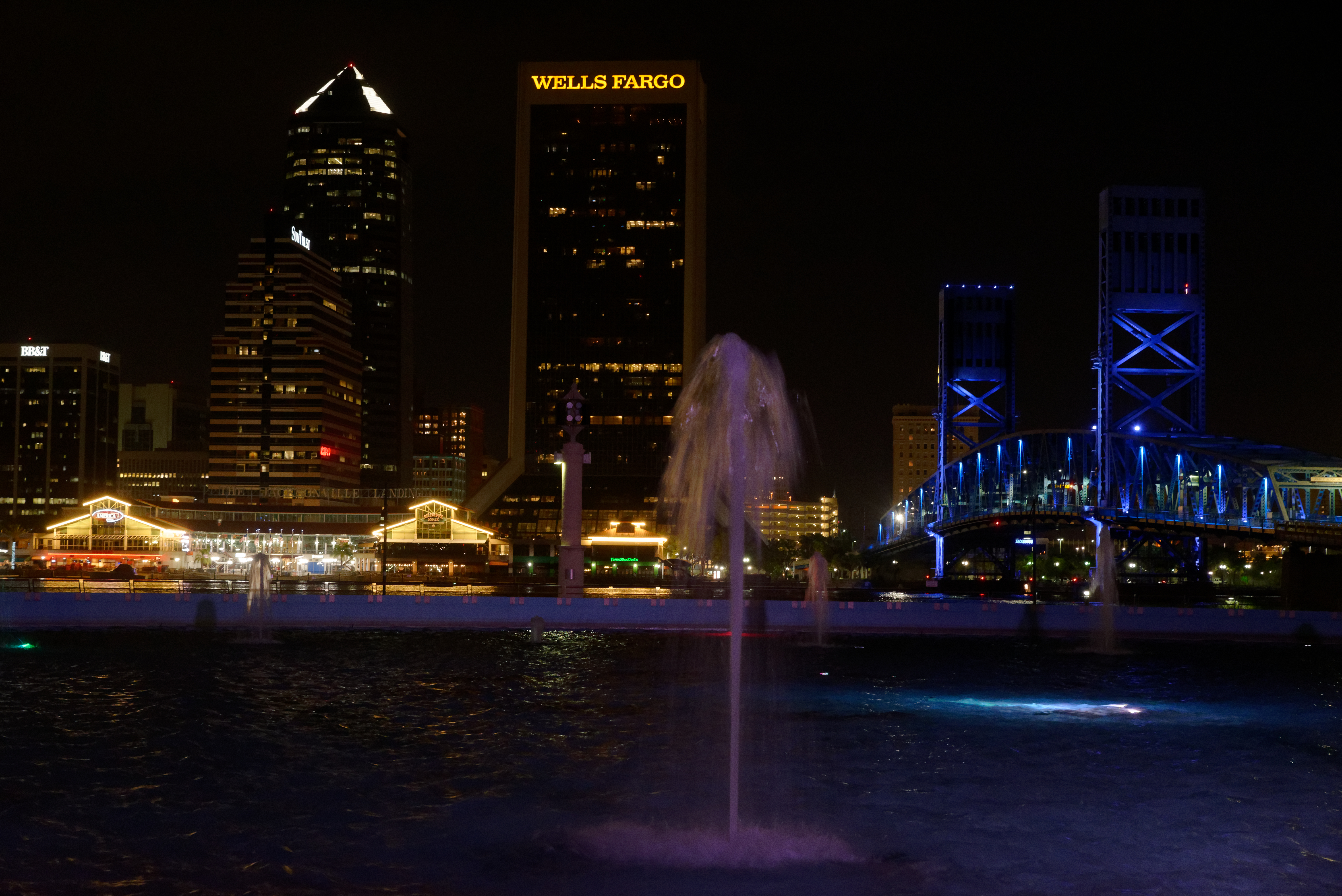 Friendship Fountain at night, with Jacksonville Landing on the left and the Main Street Bridge on the right, Jacksonville, Florida, U.S. The fountain was reportedly damaged in the 2017 hurricane and has not been repaired.